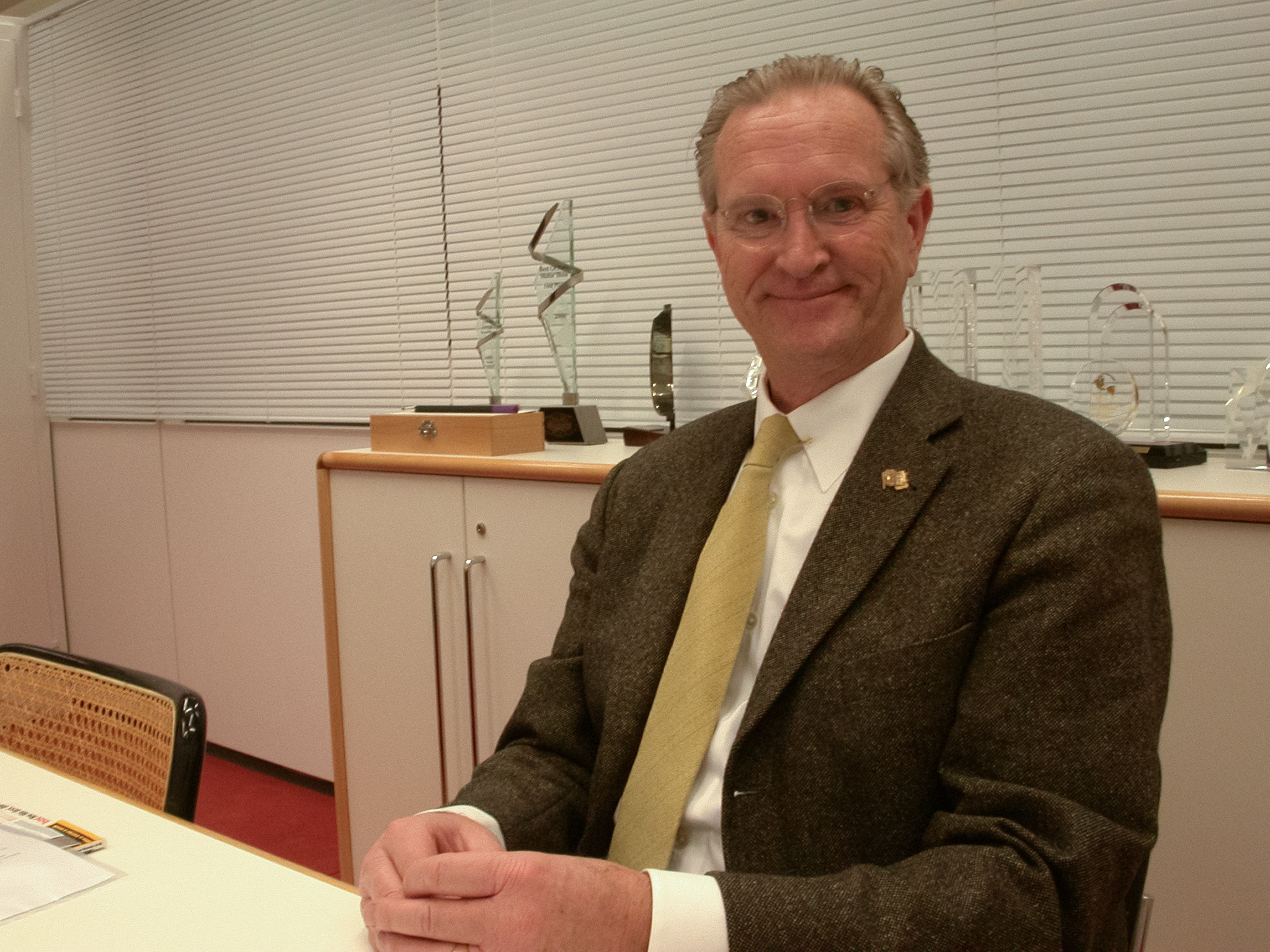 The car designer Harm Lagaay at the Porsche design centre in his last year of work